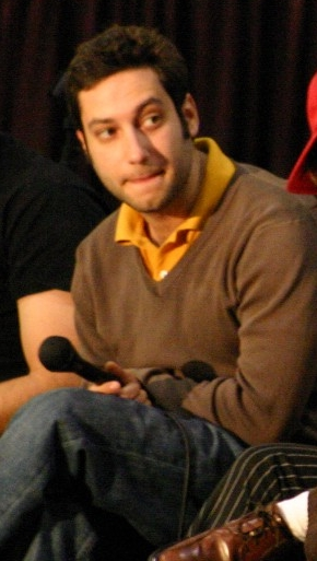 Adam Busch on a panel at the 2004 Moonlight Rising convention.